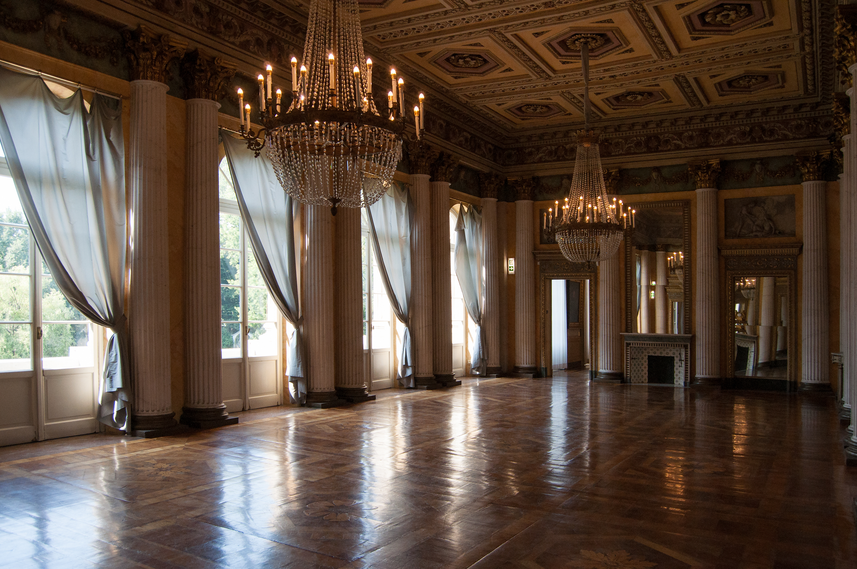 This is a photo of a monument which is part of cultural heritage of Italy.